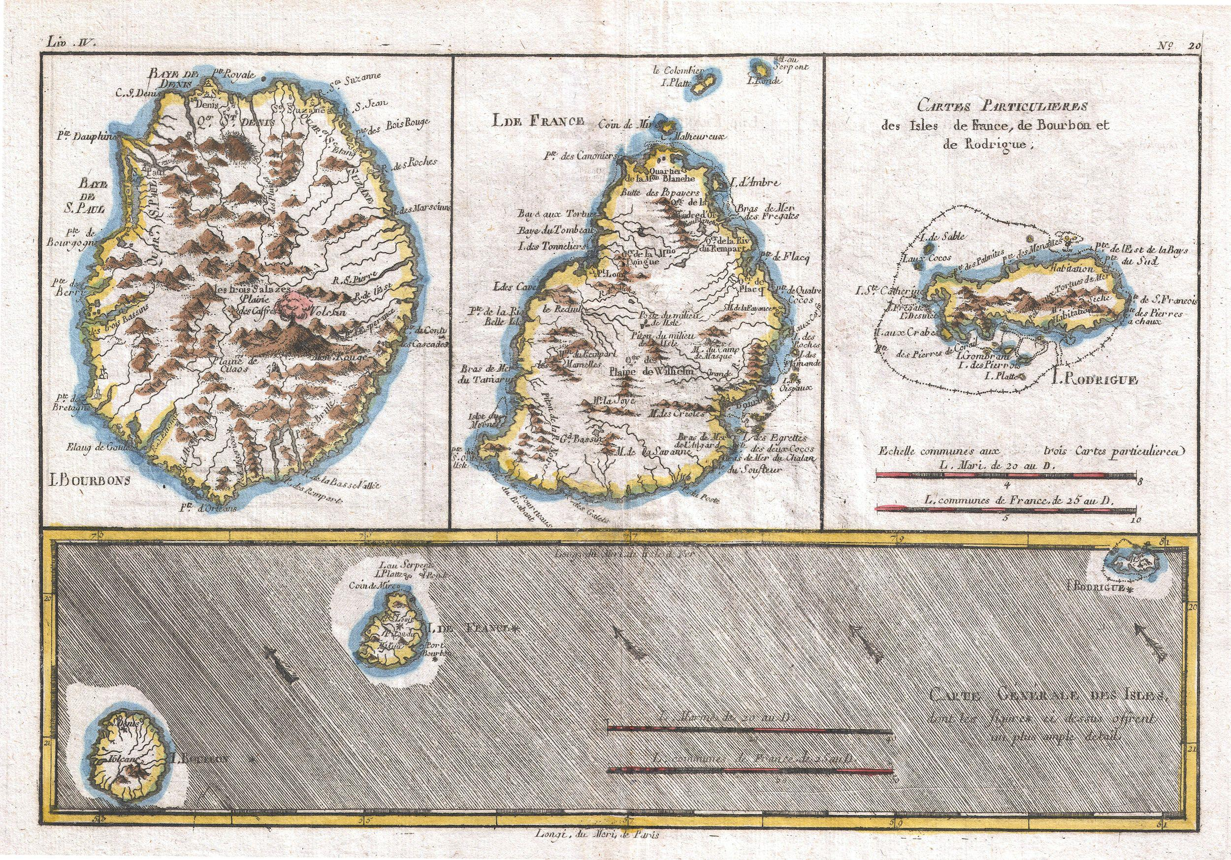 A fine example of Rigobert Bonne and Guilleme Raynal’s 1780 map of the Reunion (Ile. Bourbon), Mauritius (Ile. de France), and Rodrigues Islands, collectively known as the Mascarene Islands. Essentially four maps in one, the first map shows Reunion (Bourbon) Island. This map includes inland mountain ranges, featuring an erupting volcano in profile, and a detailed coastline with cities, rivers and ports. The center-most map details Mauritius Island (Ile. de France). Shows major cities and rivers and a detailed coast-line, including reefs, shoals, and other underwater dangers. The third map focuses on Rodrigues Island (Rodrigue Island.) Features mountain ranges, cities, and the barrier reef surrounding the island. Drawn by R. Bonne for G. Raynal’s Atlas de Toutes les Parties Connues du Globe Terrestre, Dressé pour l'Histoire Philosophique et Politique des Établissemens et du Commerce des Européens dans les Deux Indes .